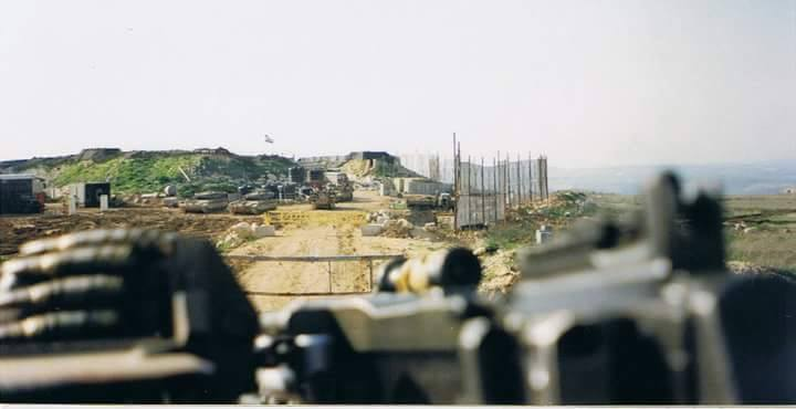 תמונה של מוצב טייבה בדרום לבנון שצולמה בשנת 1999על ידי שי שמש